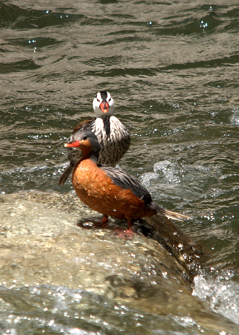 A pair of Torrent Ducks on the Urubamba River in Urumamba River, Peru.